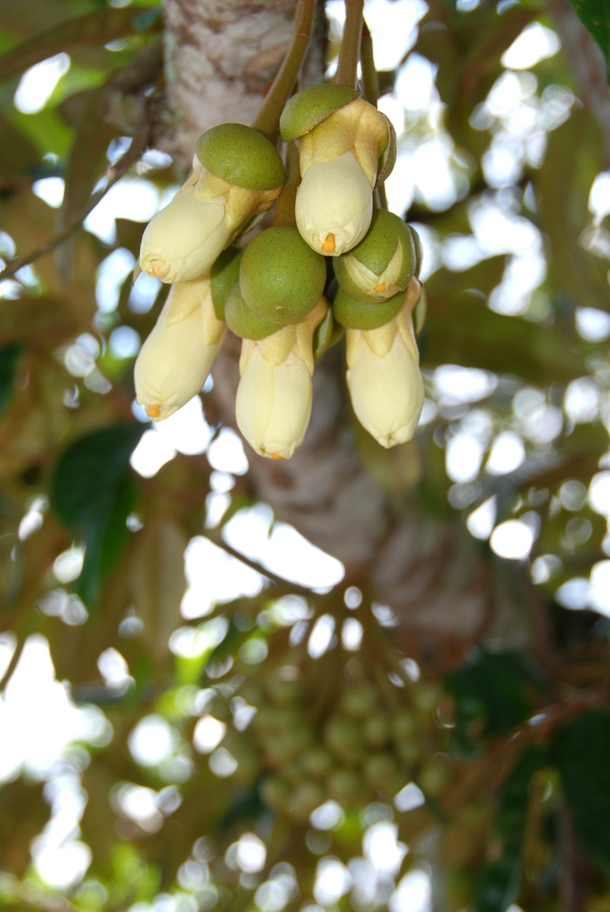 Durian flower